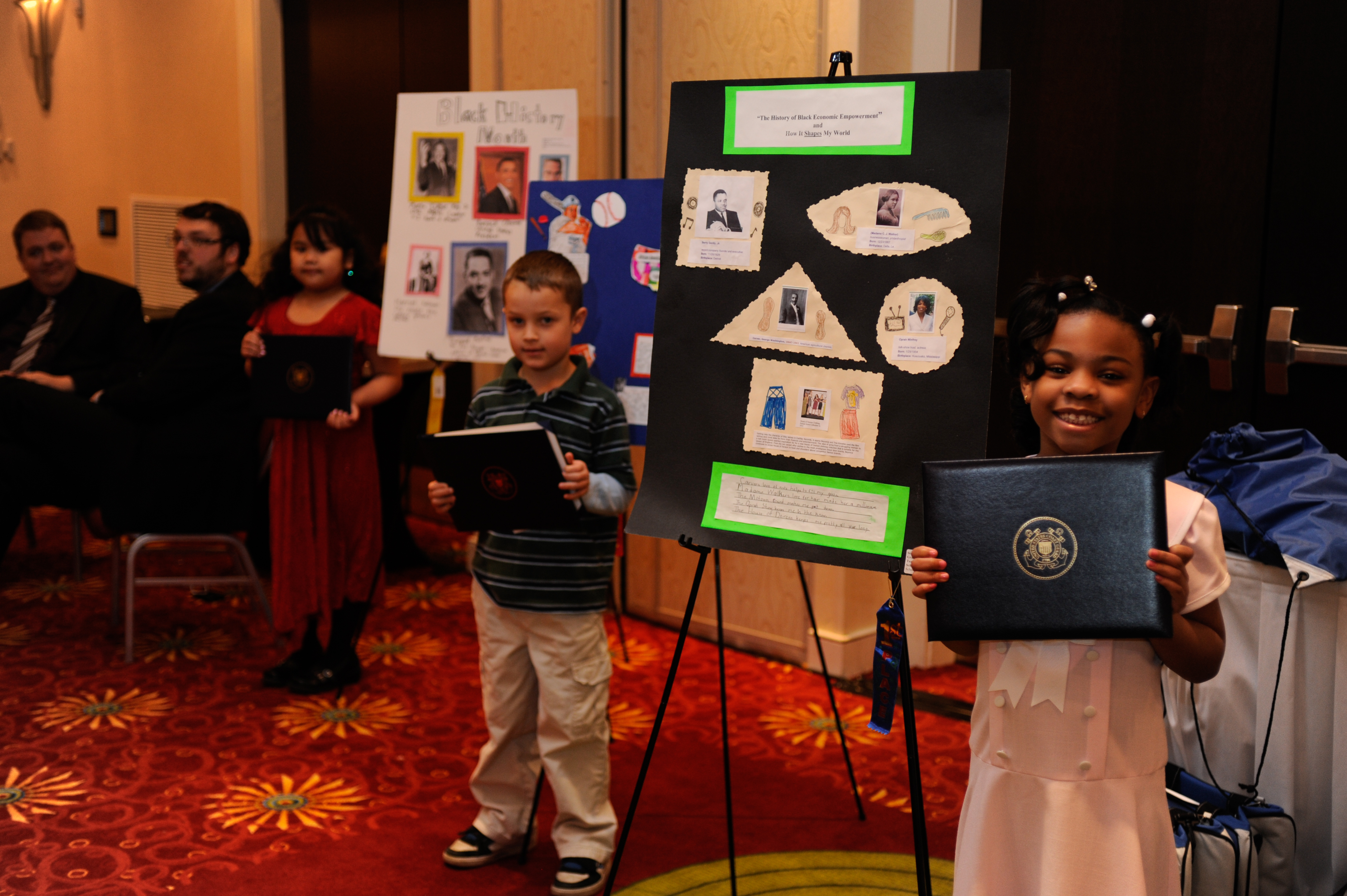 CHESAPEAKE, Va. - Art contest winners from Churchland Academy Elementary, Churchland Elementary and Treakle Elementary grades kindergarten to 2nd Makiya A. Brooks, Jagger Ogle, and Gabrielle B. Carlson pose with their posters and certificates during the Hampton Roads Coast Guard Black History Month Breakfast at the Marriott Chesapeake Hotel Feb. 24, 2010. The elementary schools are participants in the Coast Guard Partnership in Education Programs, which is designed to enhance educational opportunities and raise career awareness among the nation's youth through direct participation in education-related programs. U.S. Coast Guard photo by Petty Officer 2nd Class Andrew Kendrick